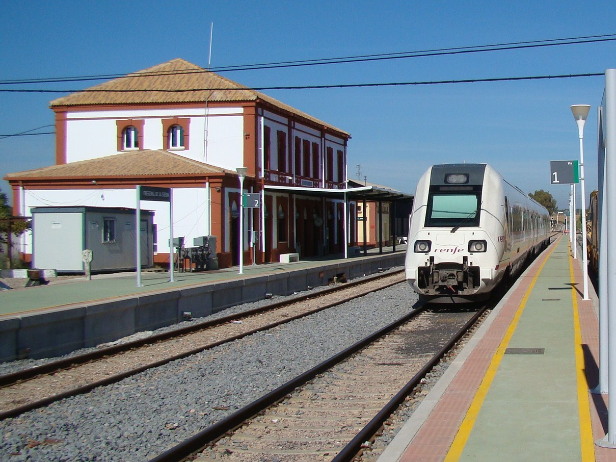 Fregenal train station in Fregenal de la Sierra (Extremadura, Spain).